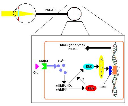 Image describing the pathways from the retina to the alterations in gene transcription induced by light as a zeitgeber in mammals. The DNA spiral is based upon the one uploaded by user:Mstroeck (DNA Overview.png), who has licensed it as GFDL.